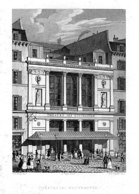 Facade of the first Théâtre des Nouveautés on the place de la Bourse